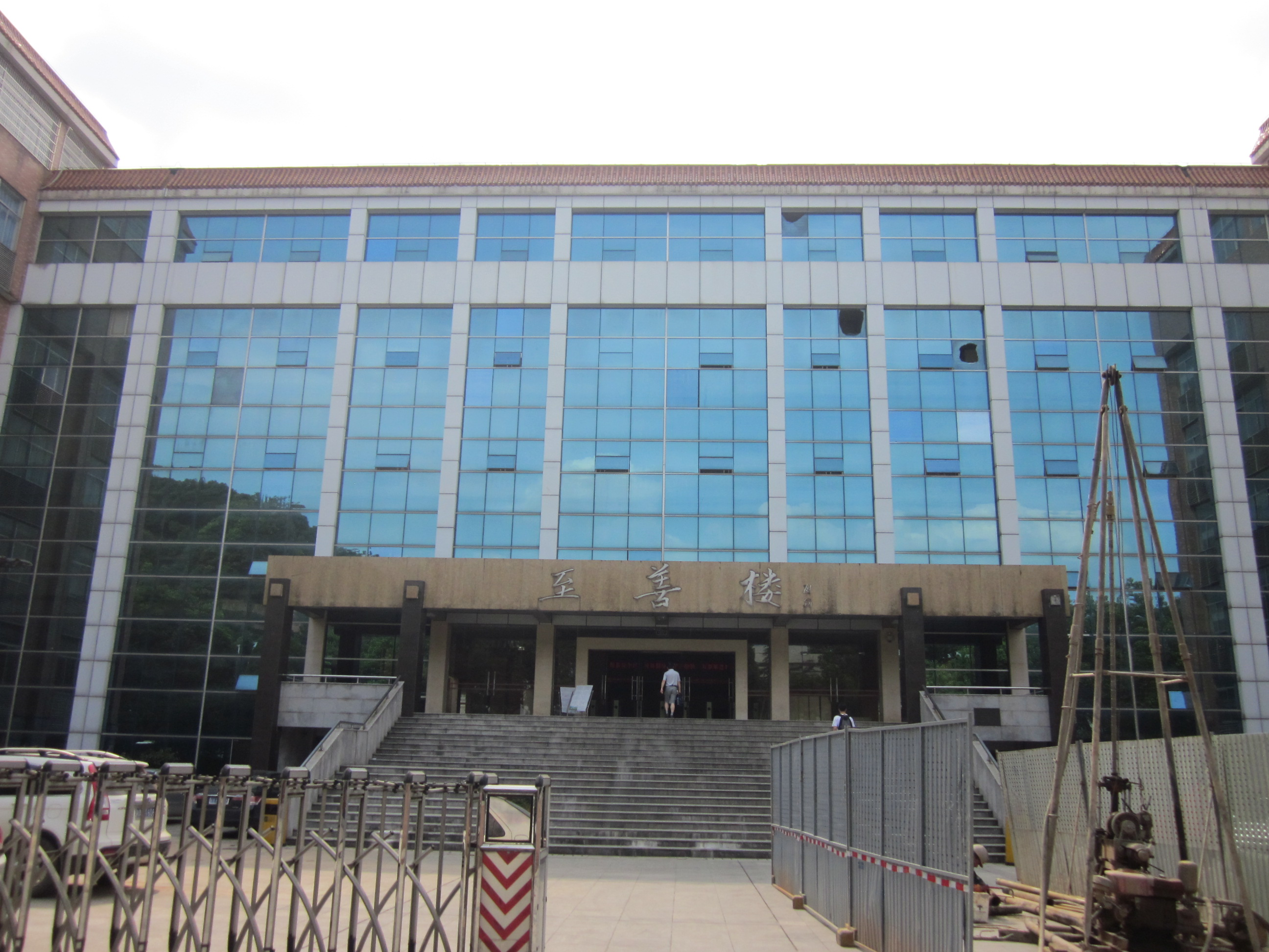 Changsha University (CCSU